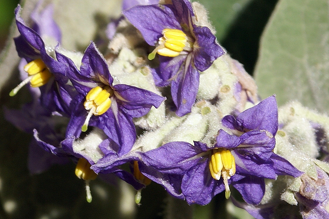 Flowers of Solanum mauritianum (close view)